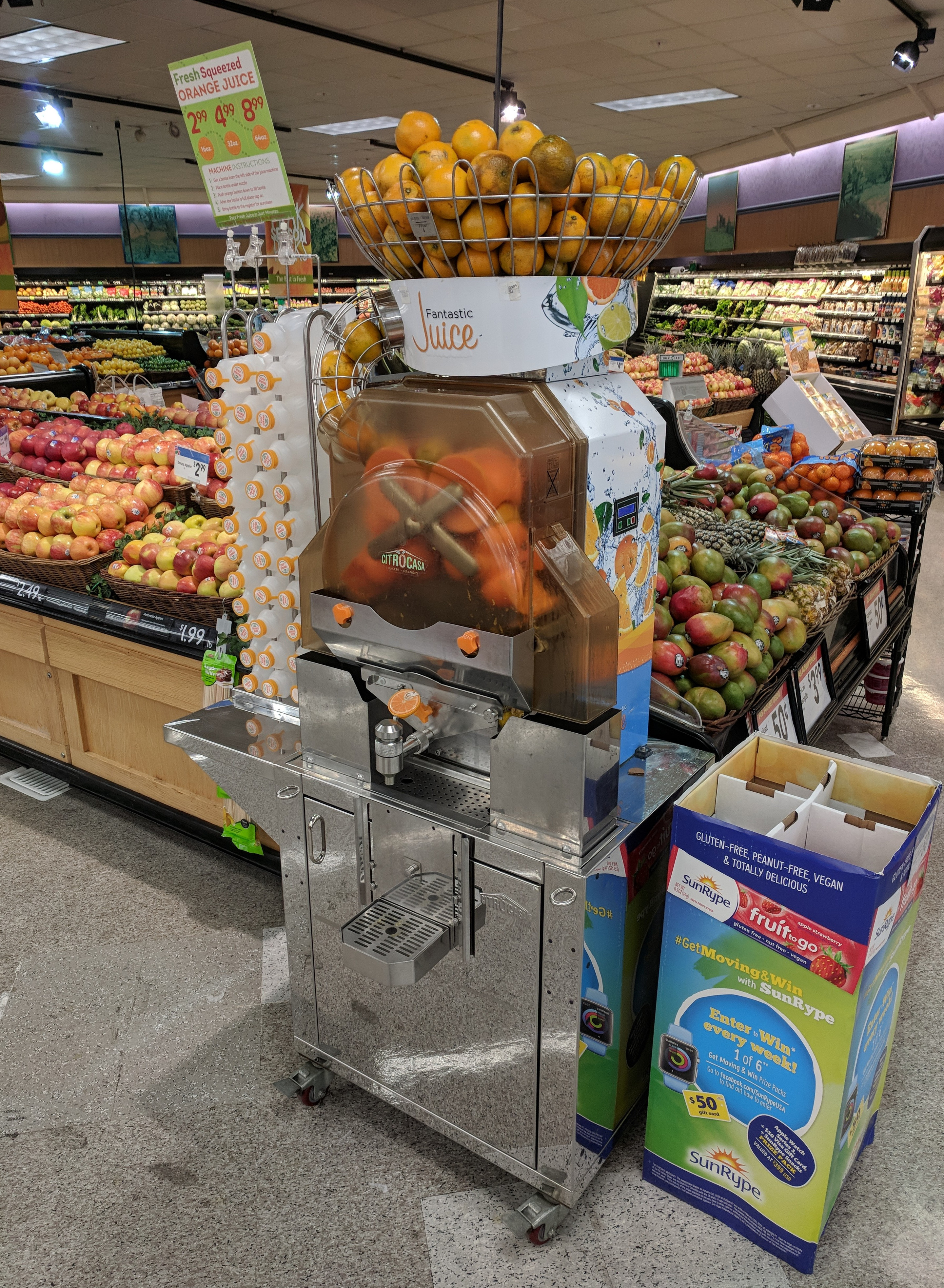 An automated orange juice machine in a Lucky supermarket in San Jose, California. Oranges are fed in from the hopper at the top, peeled and squeezed automatically.